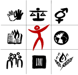 International Service for Human Rights (ISHR) logo